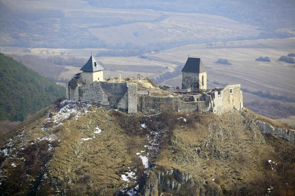 Füzér, Castle, Hungary, aerial photography